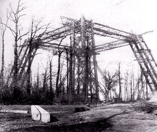 Watkin's Tower during construction